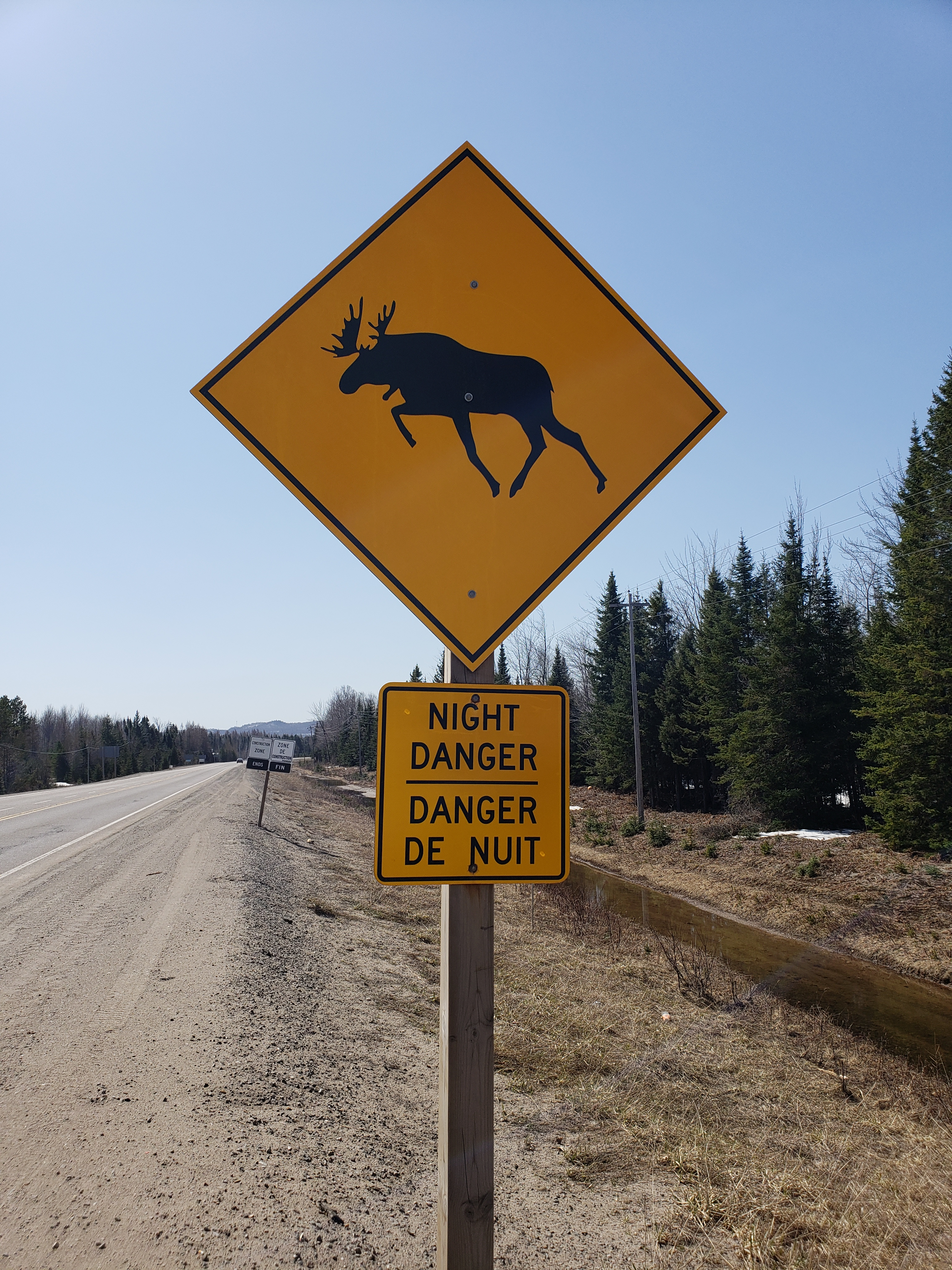 A moose crossing warning sign, in English and French, on Trans-Canada Hwy 17, Goulais River, Ontario.